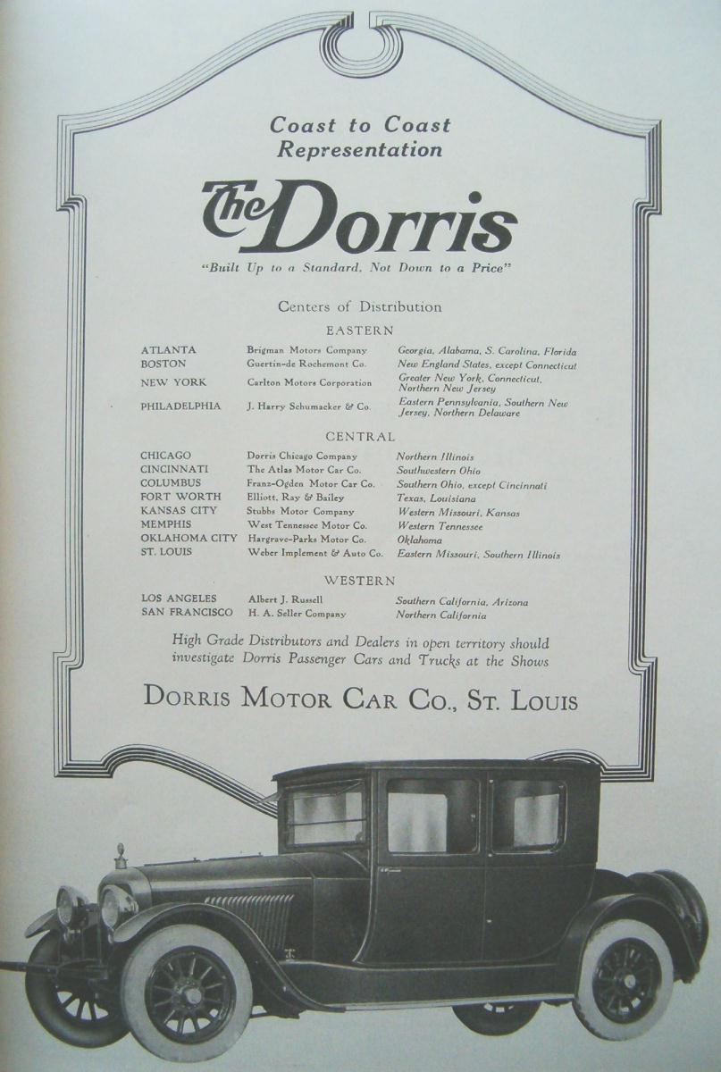 Dorris advertisement in 1921 MoTor magazine.